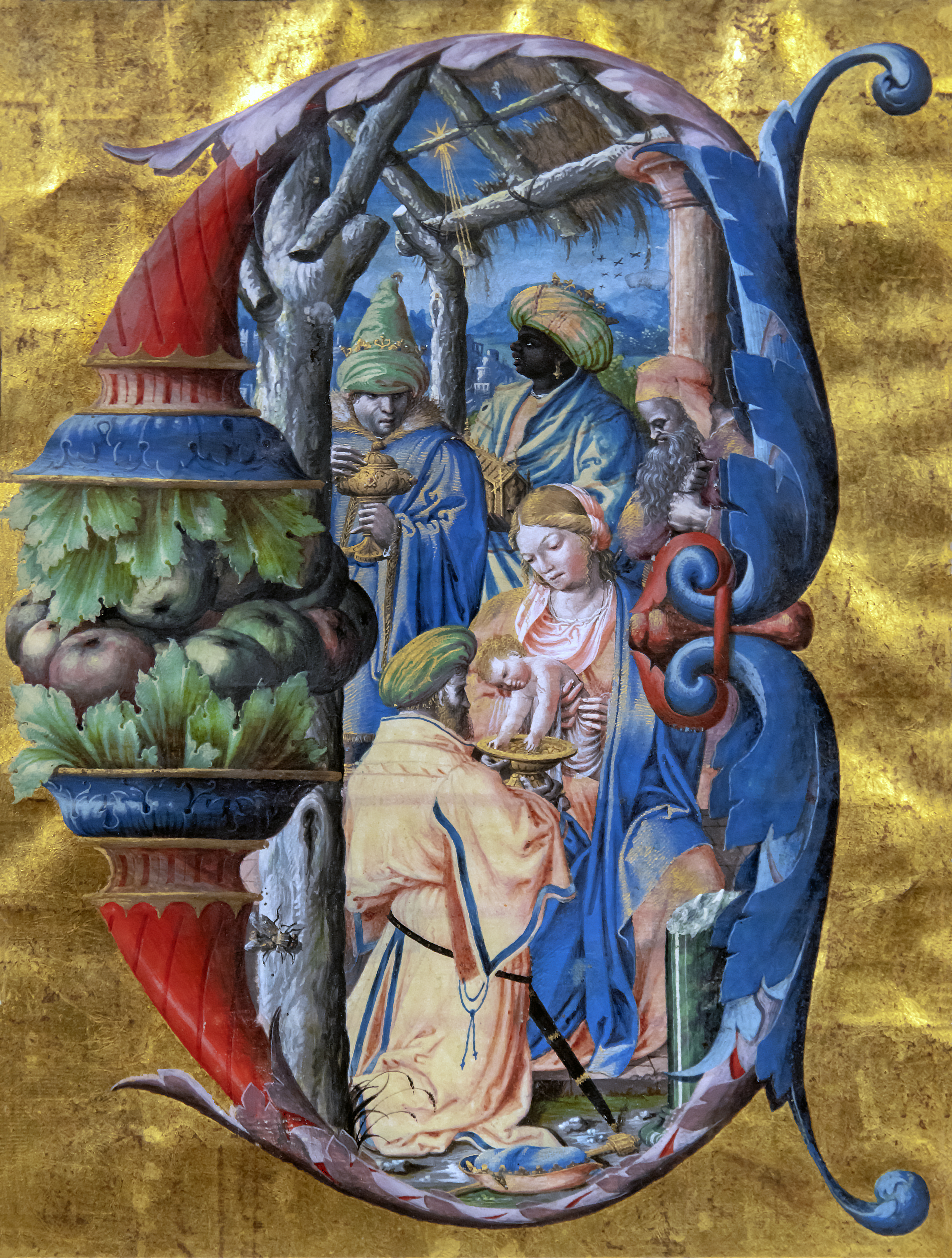 Adoration of the Magi;Illumination of an Antiphonary by Philippe de Lévis, Bishop of Mirepoix.